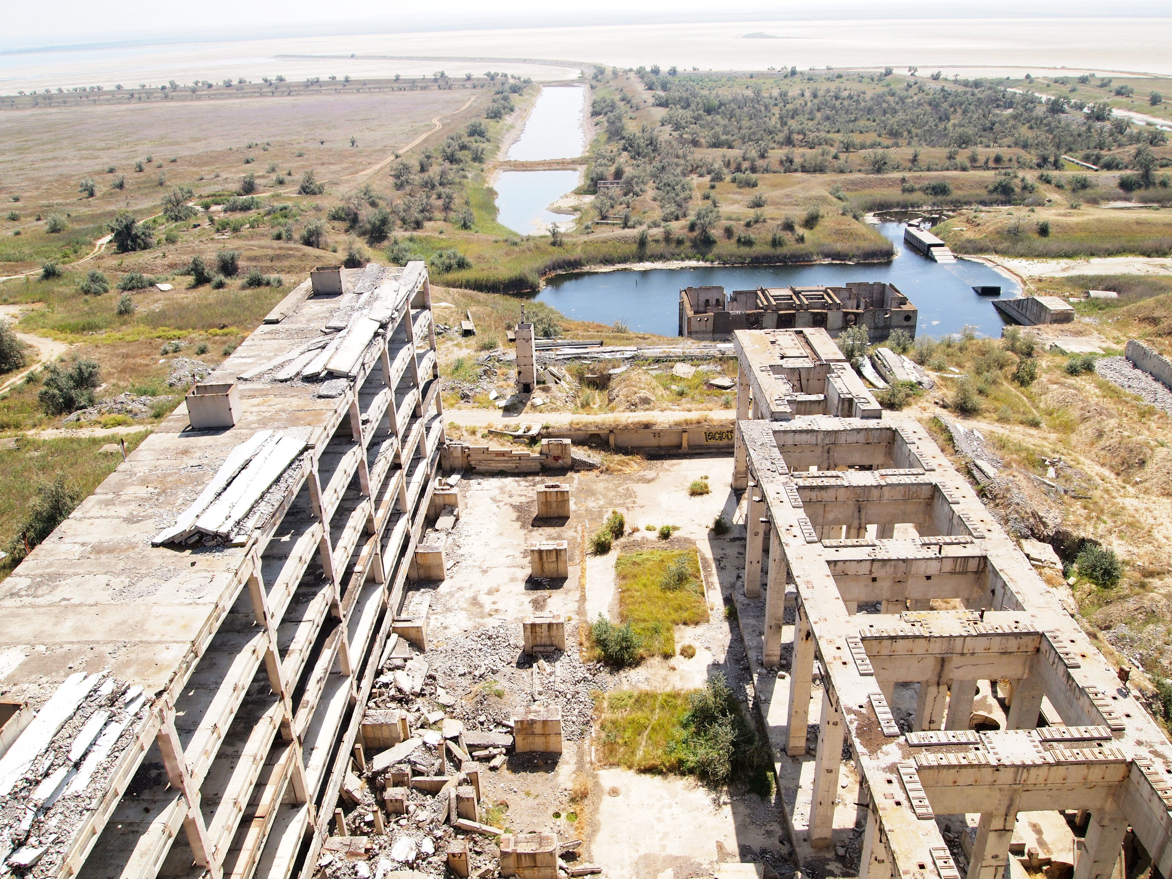 View from Crimea Nuclear Power Plant building. This photograph was taken with a Olympus E-PL1.